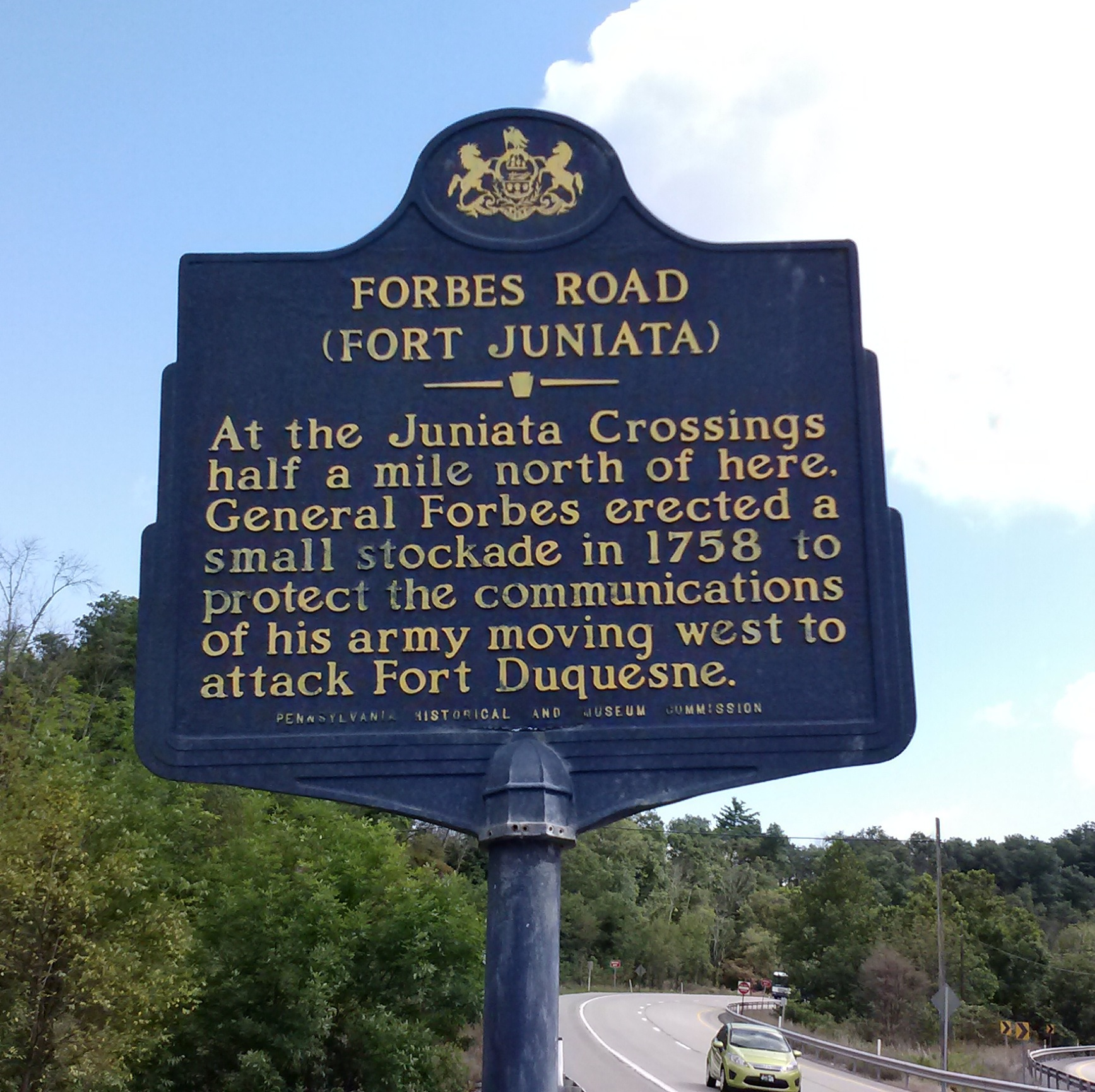 Historical marker for the Forbes Road, on U.S. Route 30 near Breezewood, PA.